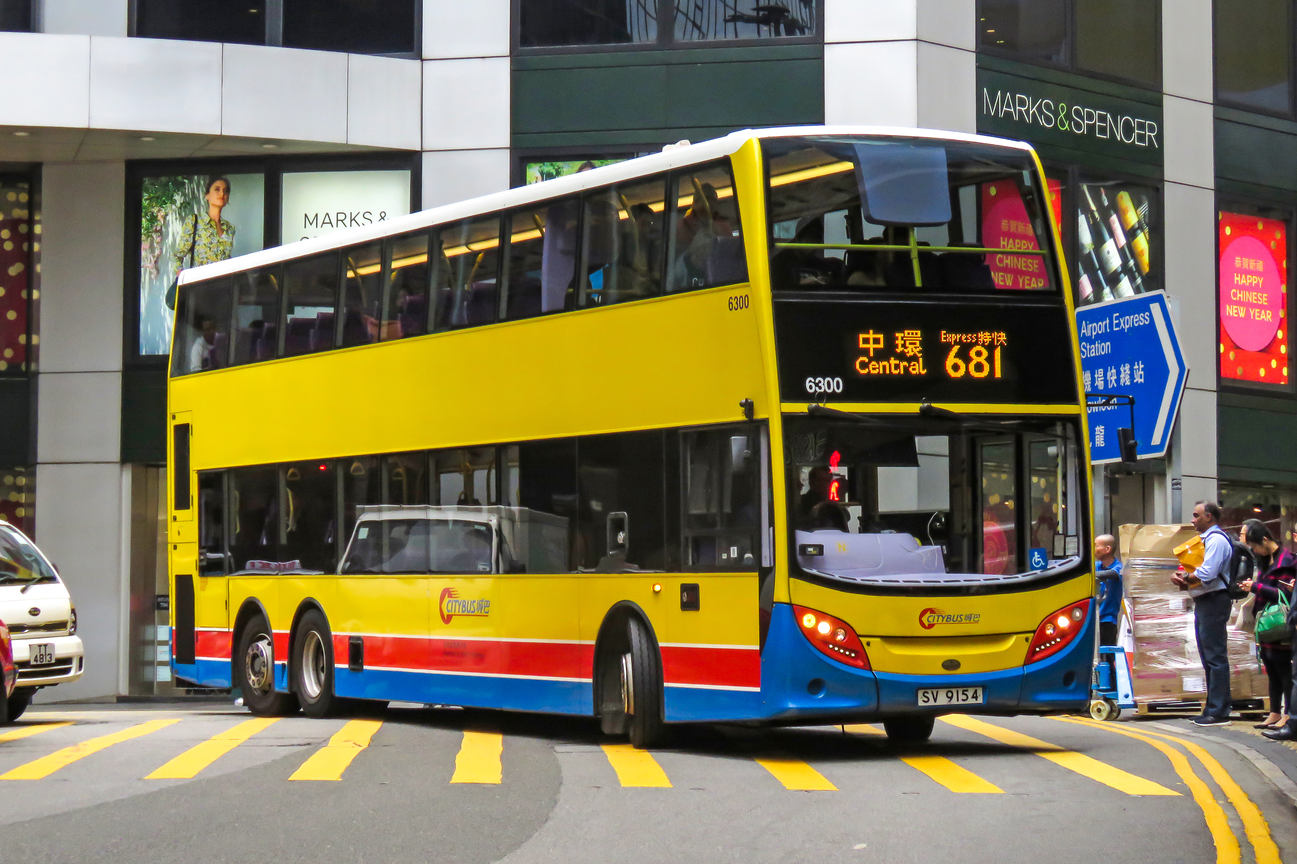 Clean MMC without advertisement... after all, this is a special one!